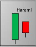 נר אוקר מעלייה לירידה